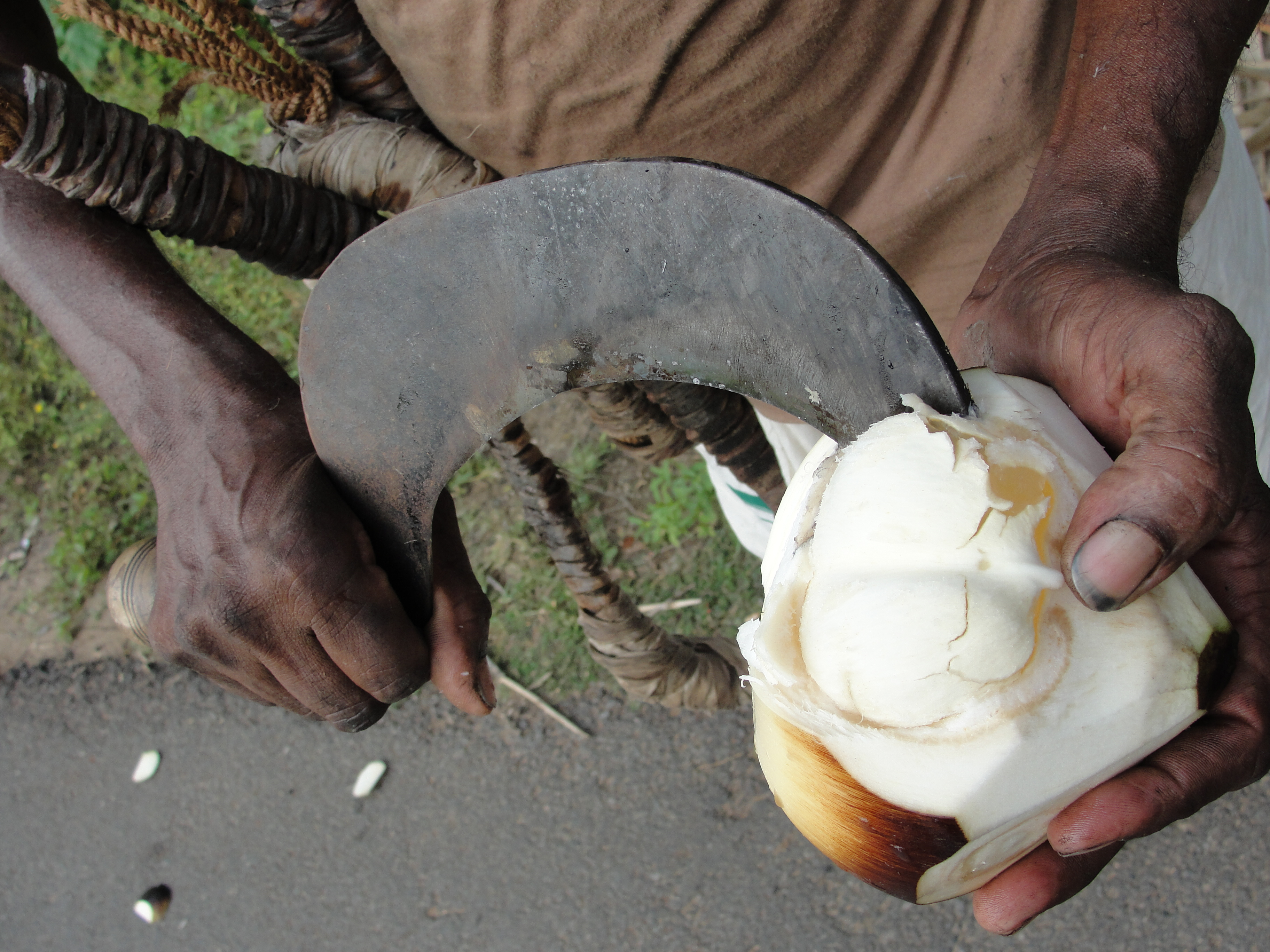 This photo depicting the process of taking young Palmyra fruit.